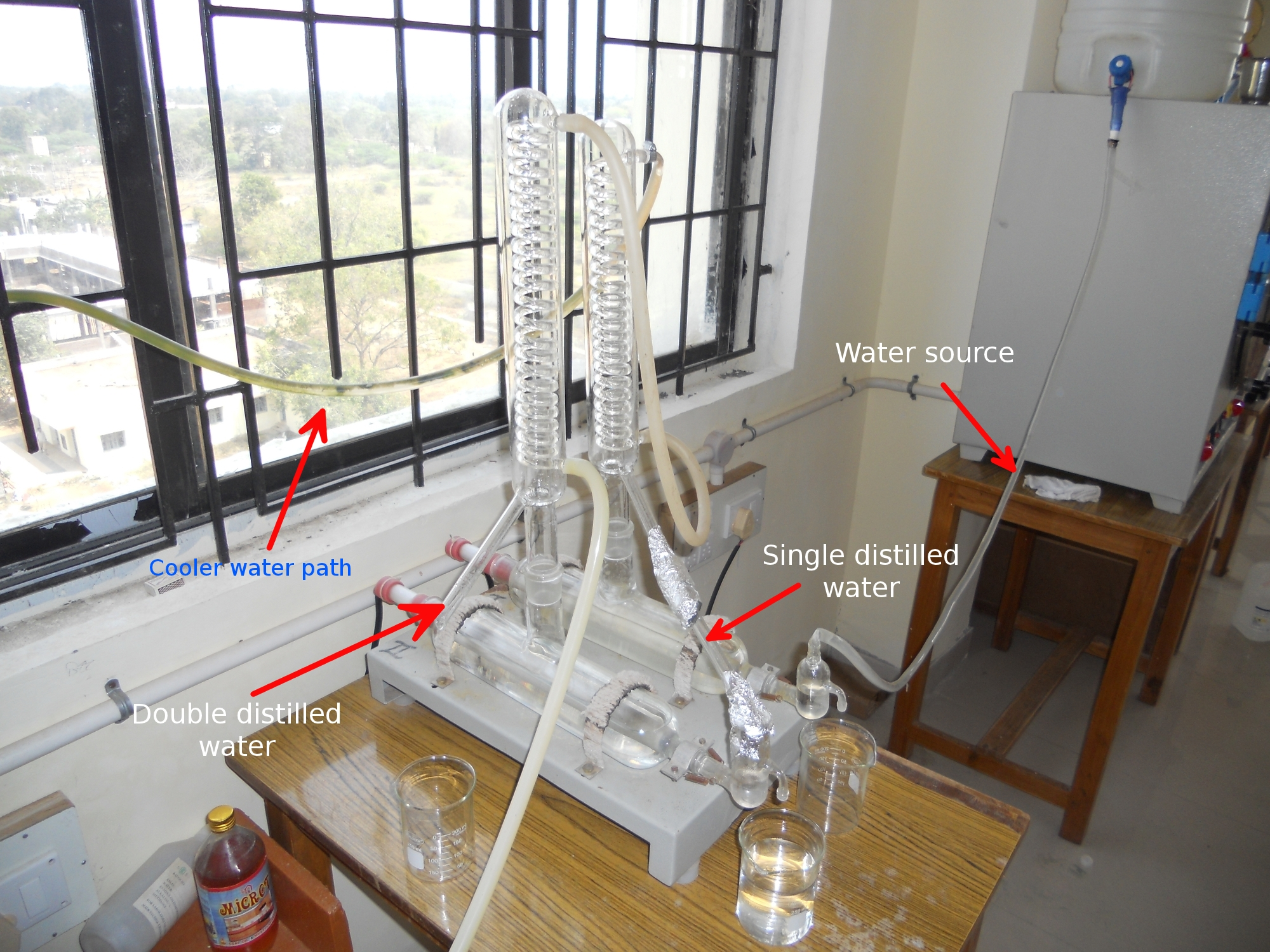 Double Distilled Water Unit